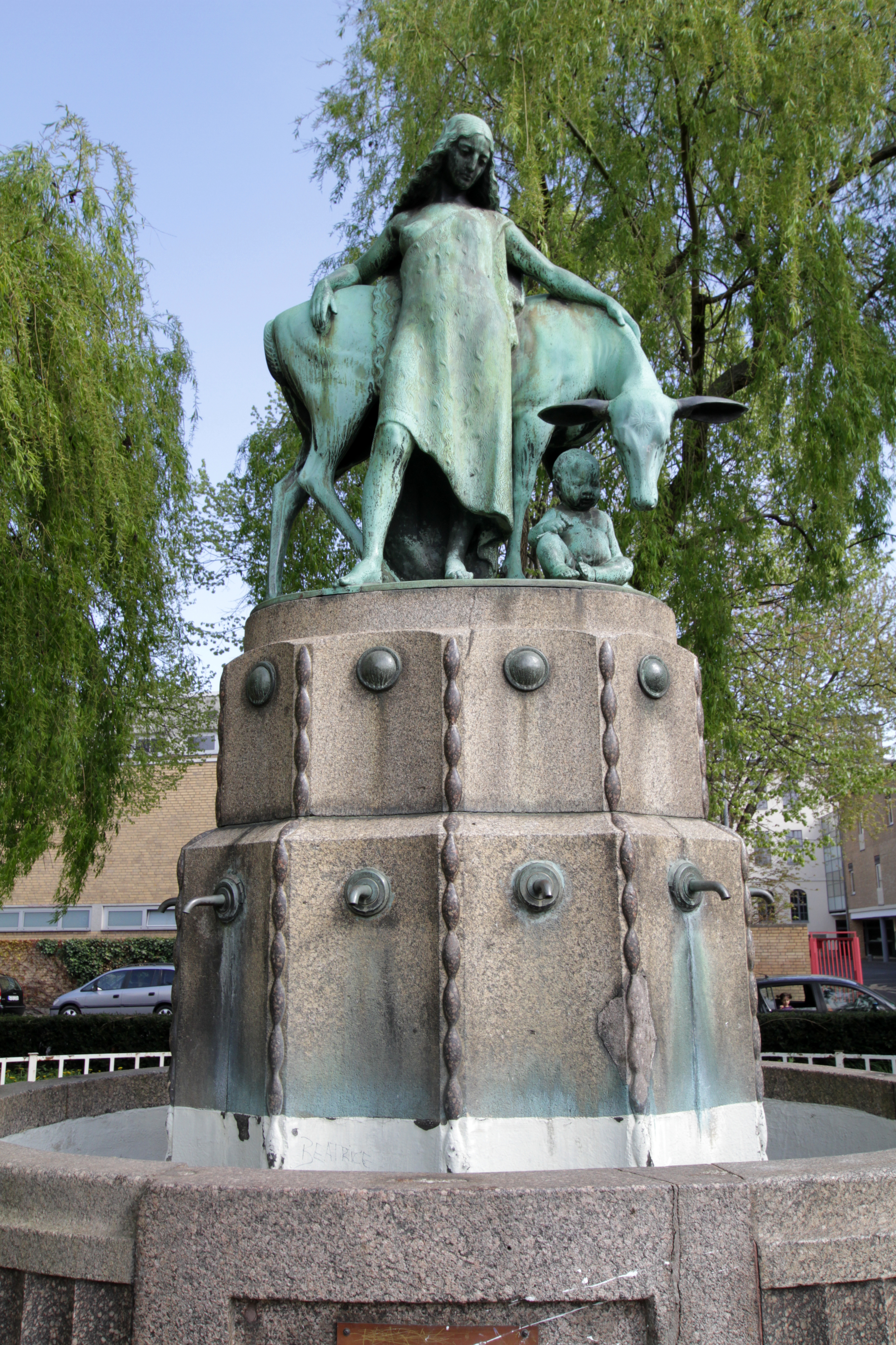 Cologne, fountain